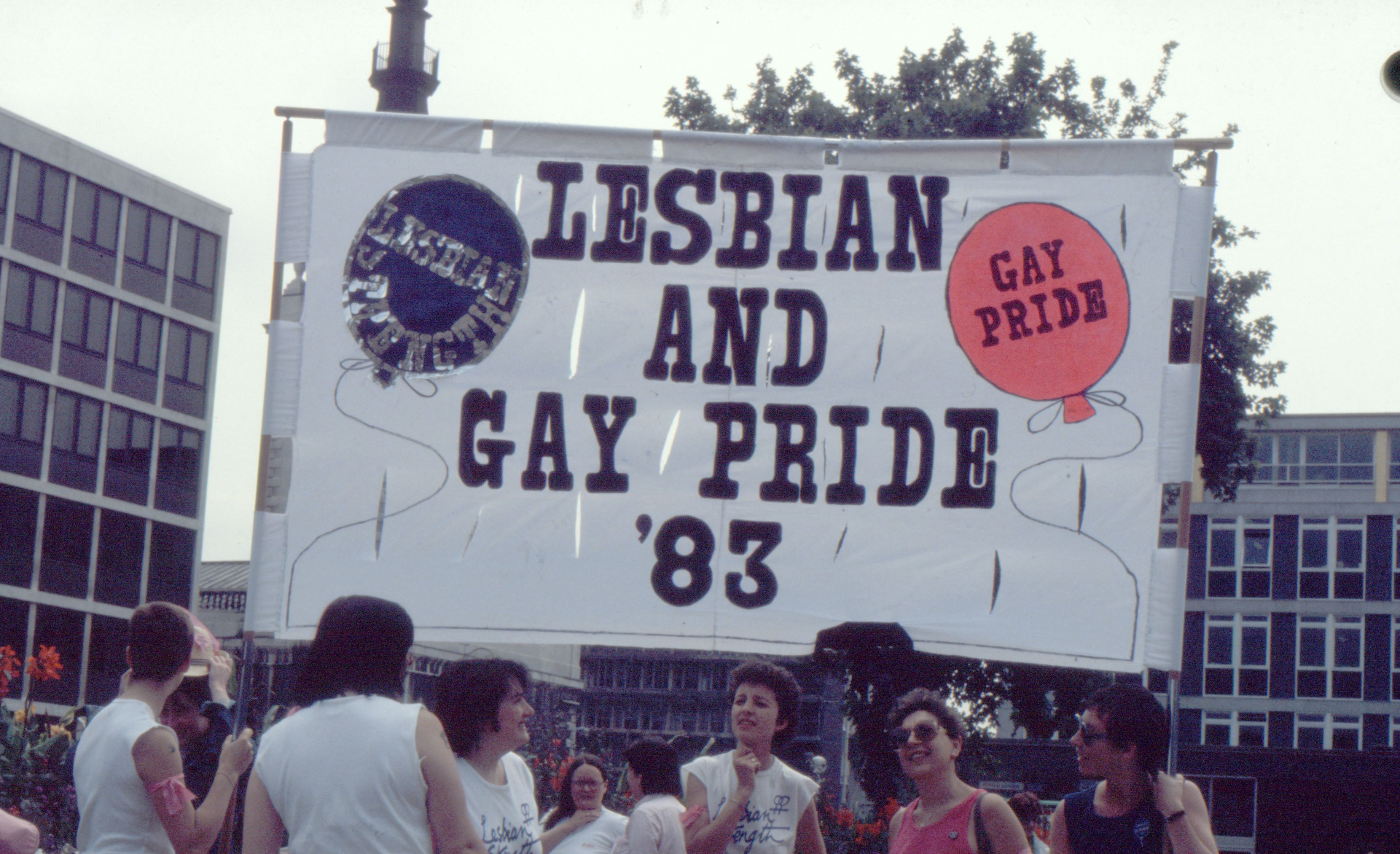 Photograph taken at start of the 1983 London Lesbian Strength March